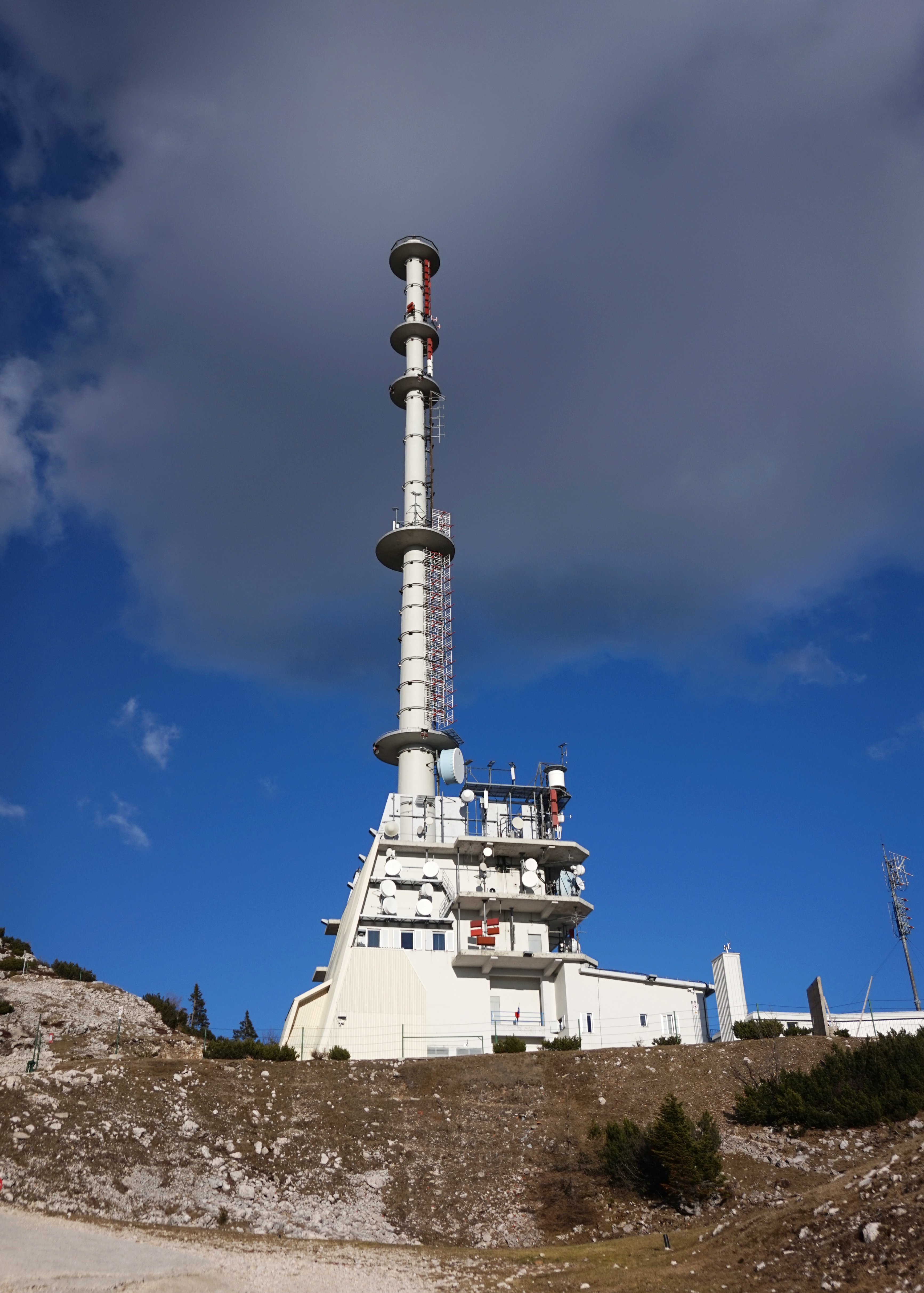 Krvavec TV tower, Slovenia.This photograph was taken with a Sony ILCE-5000